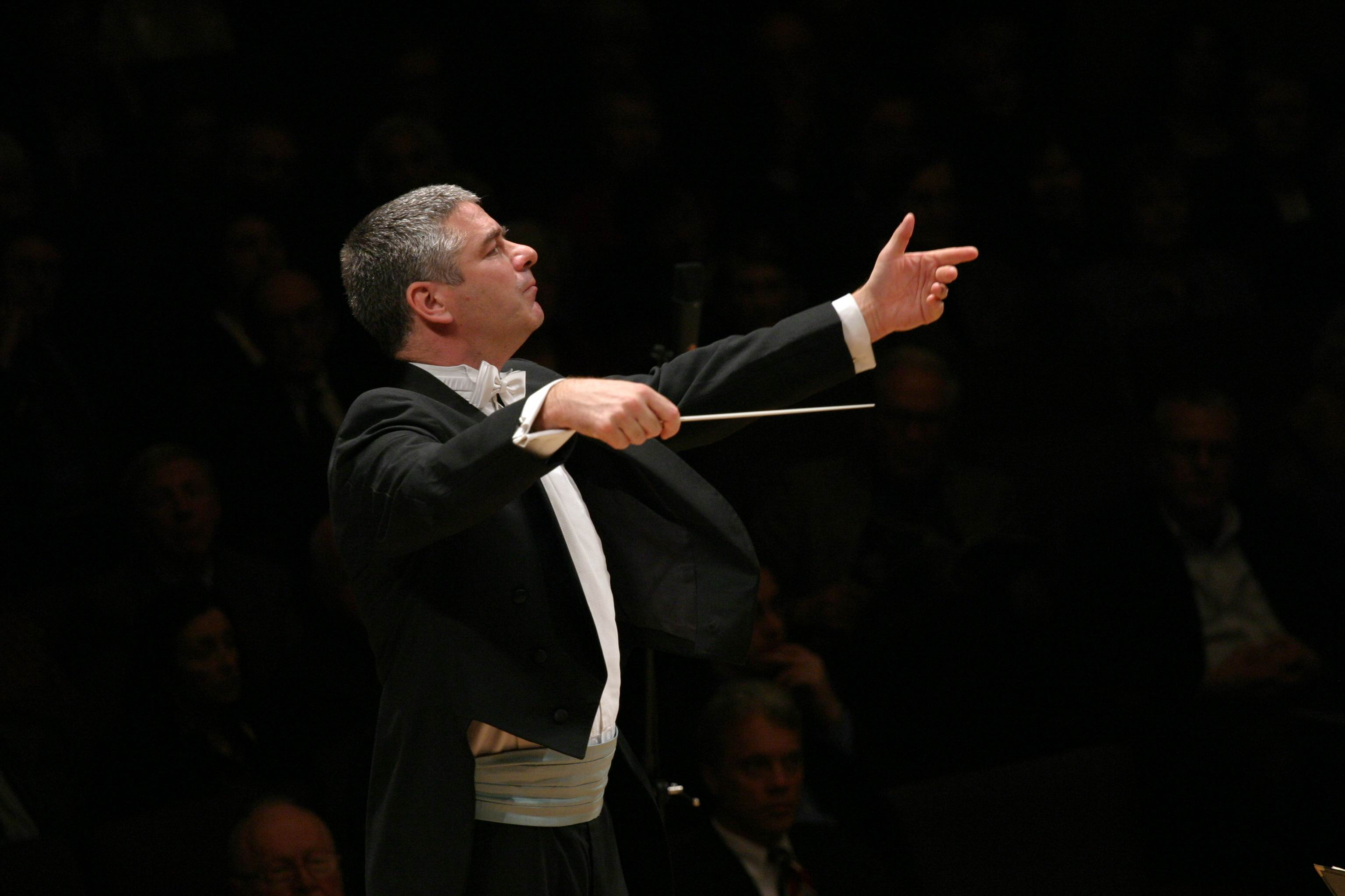 The image of Welsh conductor Grant Llewellyn (b. 1962).